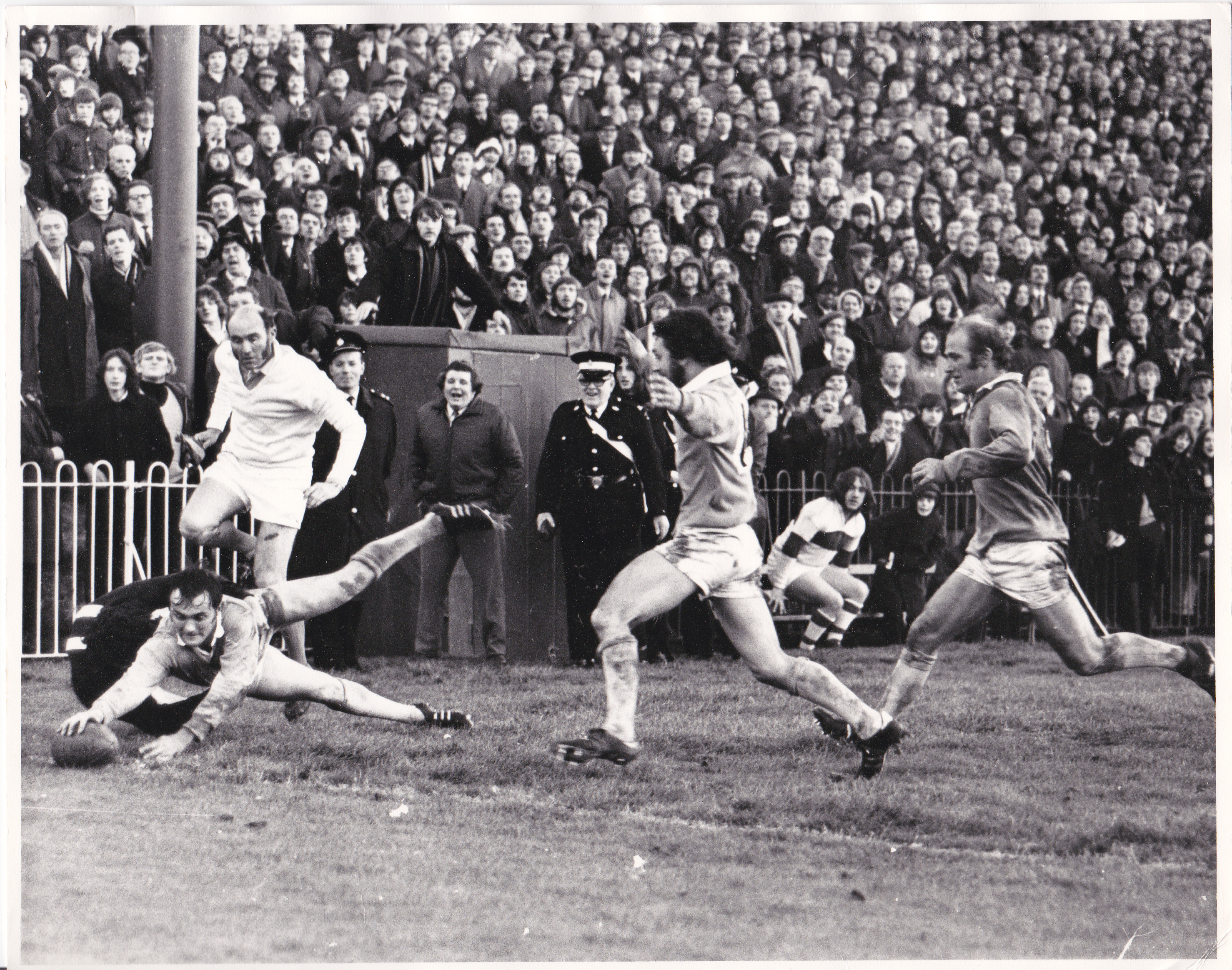 Gwent v NZ Try